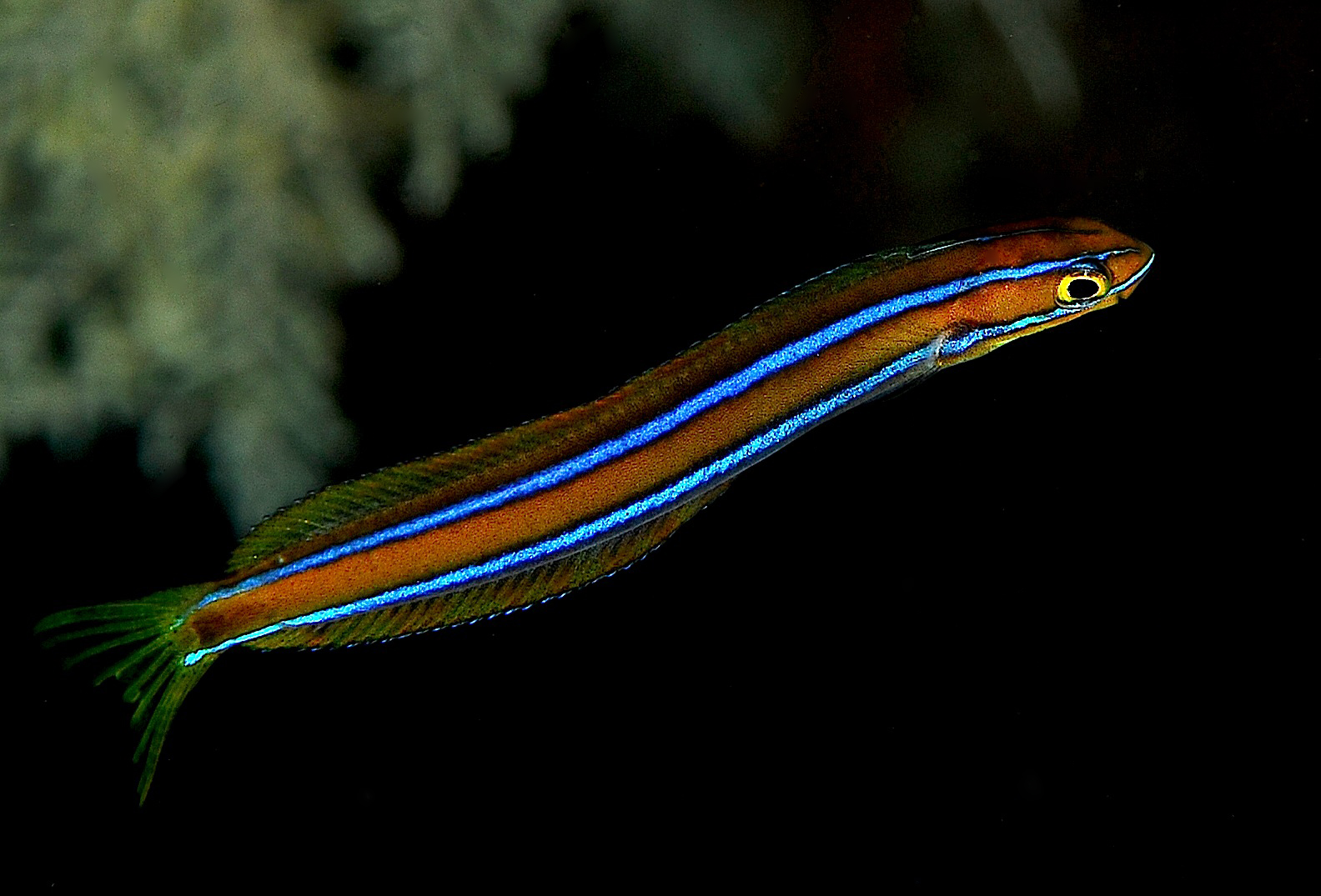 'Tube worm blenny' On Black (Plagiotremus rhinorhynchos) A very colorful and quite active little species. up to 12cm,but this one maybe just 5cm. If distubed will rapidly retreat tail first inside the tubeworm shell it uses as a shelter. The species is an 'aggressive mimic' of the Cleaner Wrasse Labroides dimidiatus; it dances like the cleaner fish to attract a client, but then bites flesh from the duped client fish instead of cleaning it.Tube worm blenny